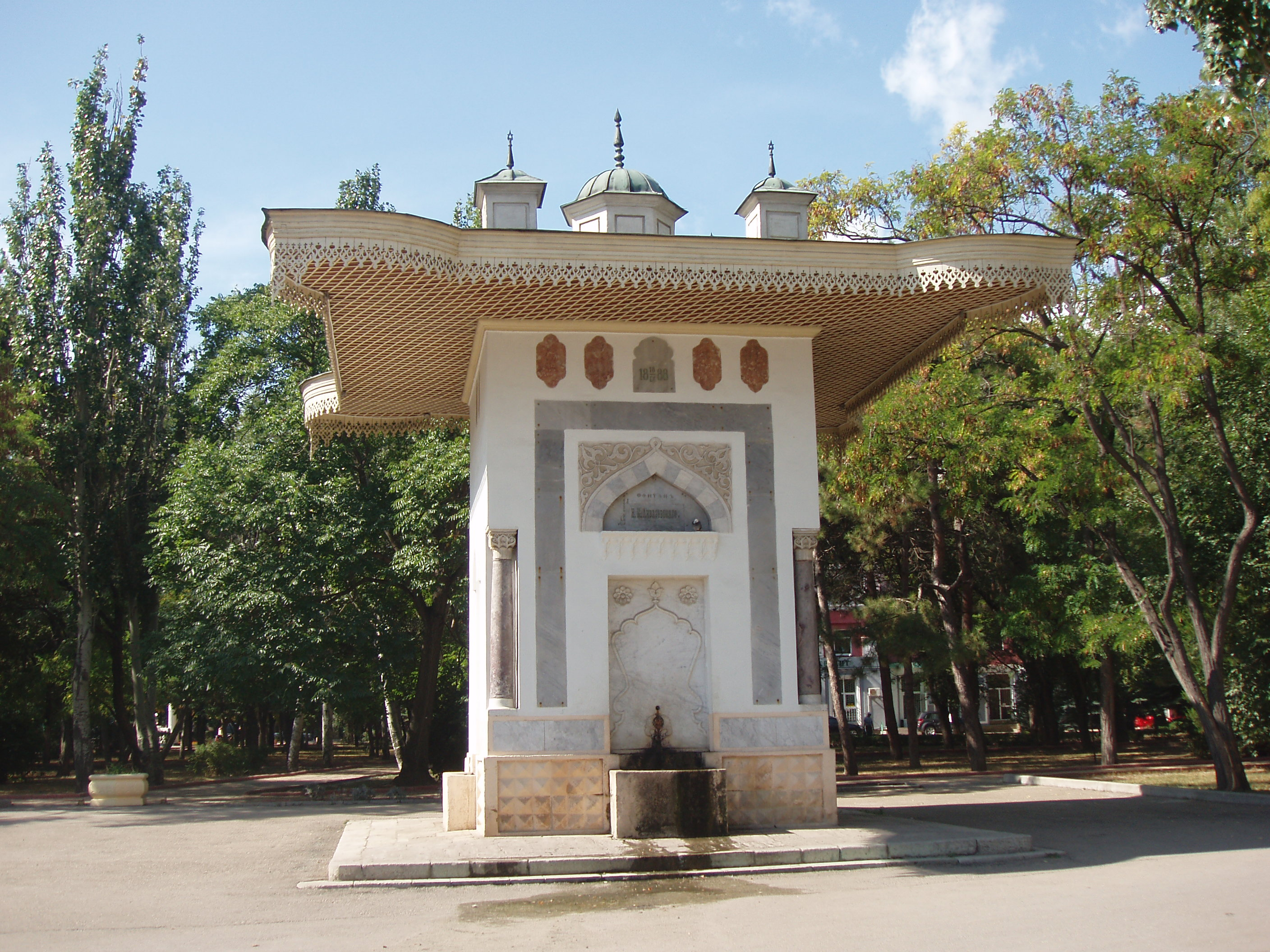 Феодосия-004